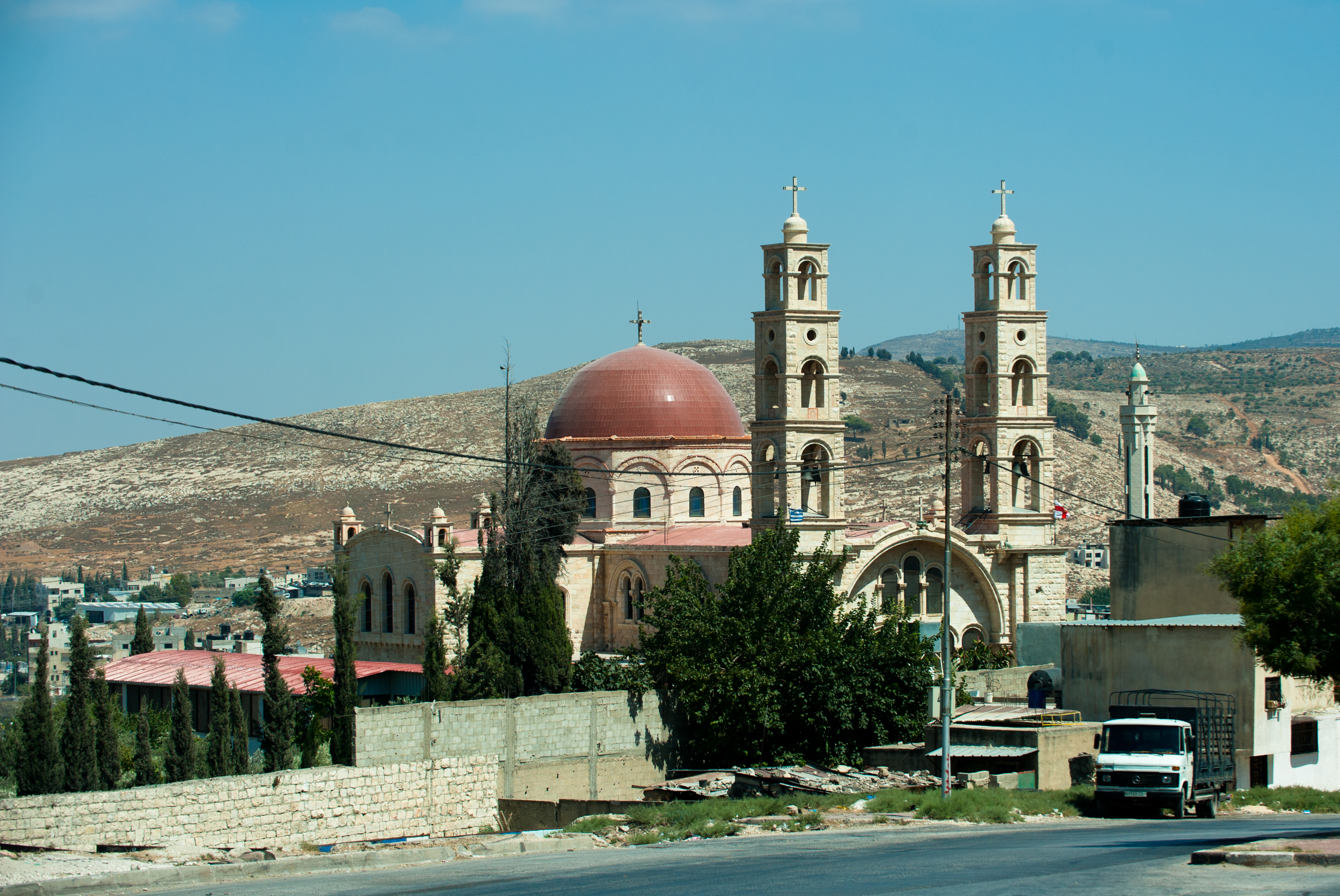 Greek Orthodox Church of Nablus, West Bank, Palestine